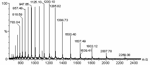 Example mass spectrum. Mass to charge ratio on x-axis. Relative abundance on y-axis.